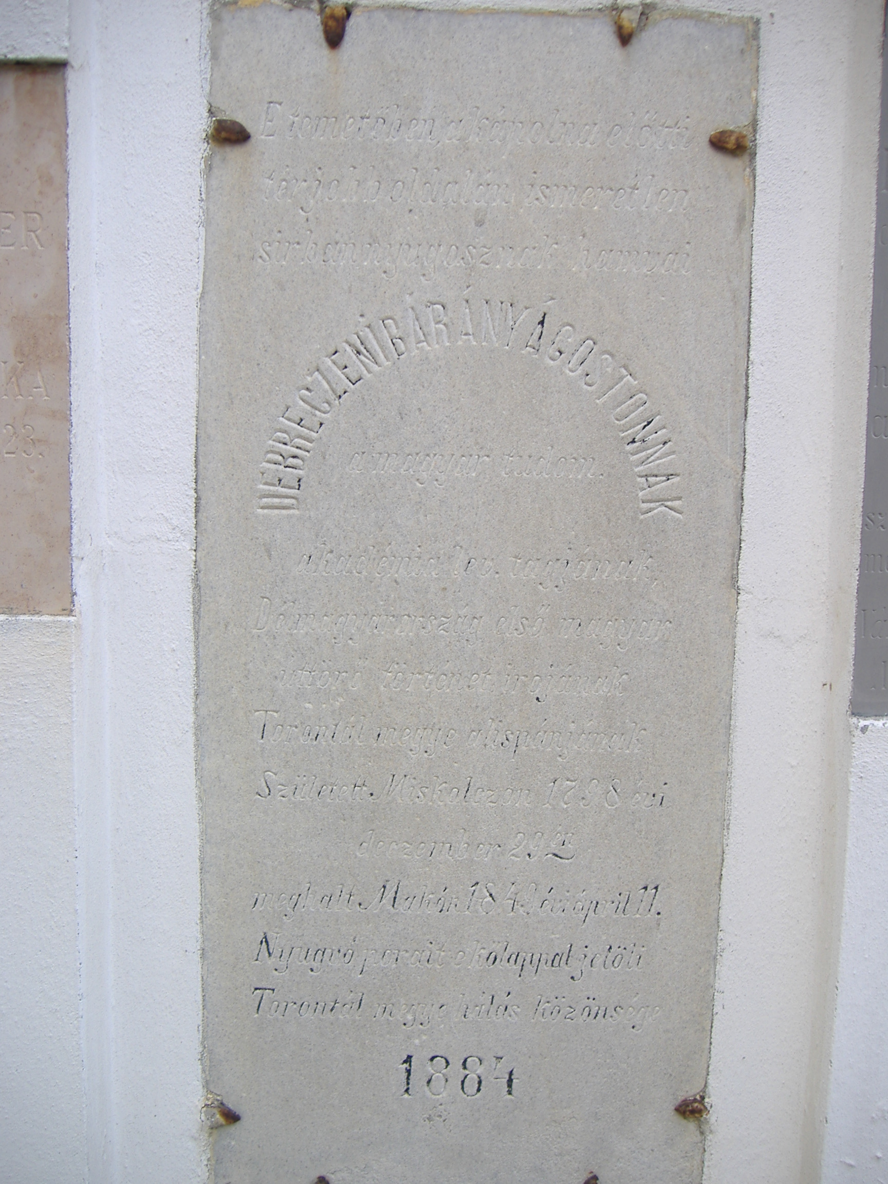 Memorial tablet of Ágoston Bárány Debreczeni, history writer in Makó, Hungary.